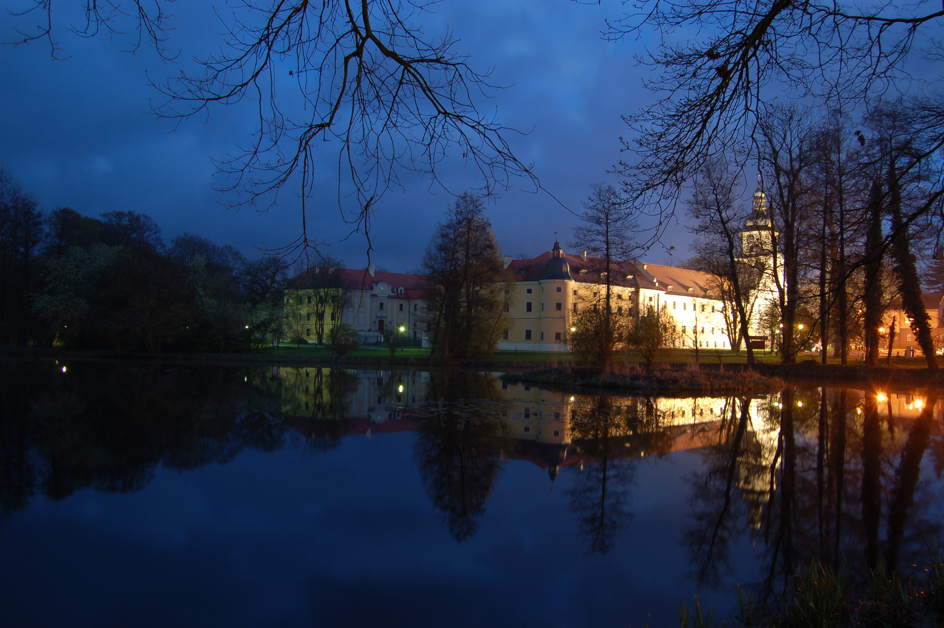 Pocysterski Zespół Klasztorno-Pałacowy w Rudach.